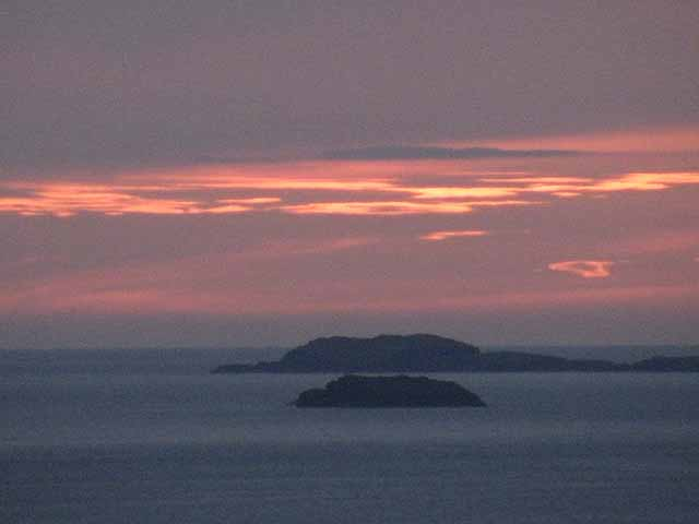 Sunset over Mwellaun An islet in the mouth of Clew Bay. Beyond lies Kinatevdilla L6483 an islet off the south-western tip of Clare Island.